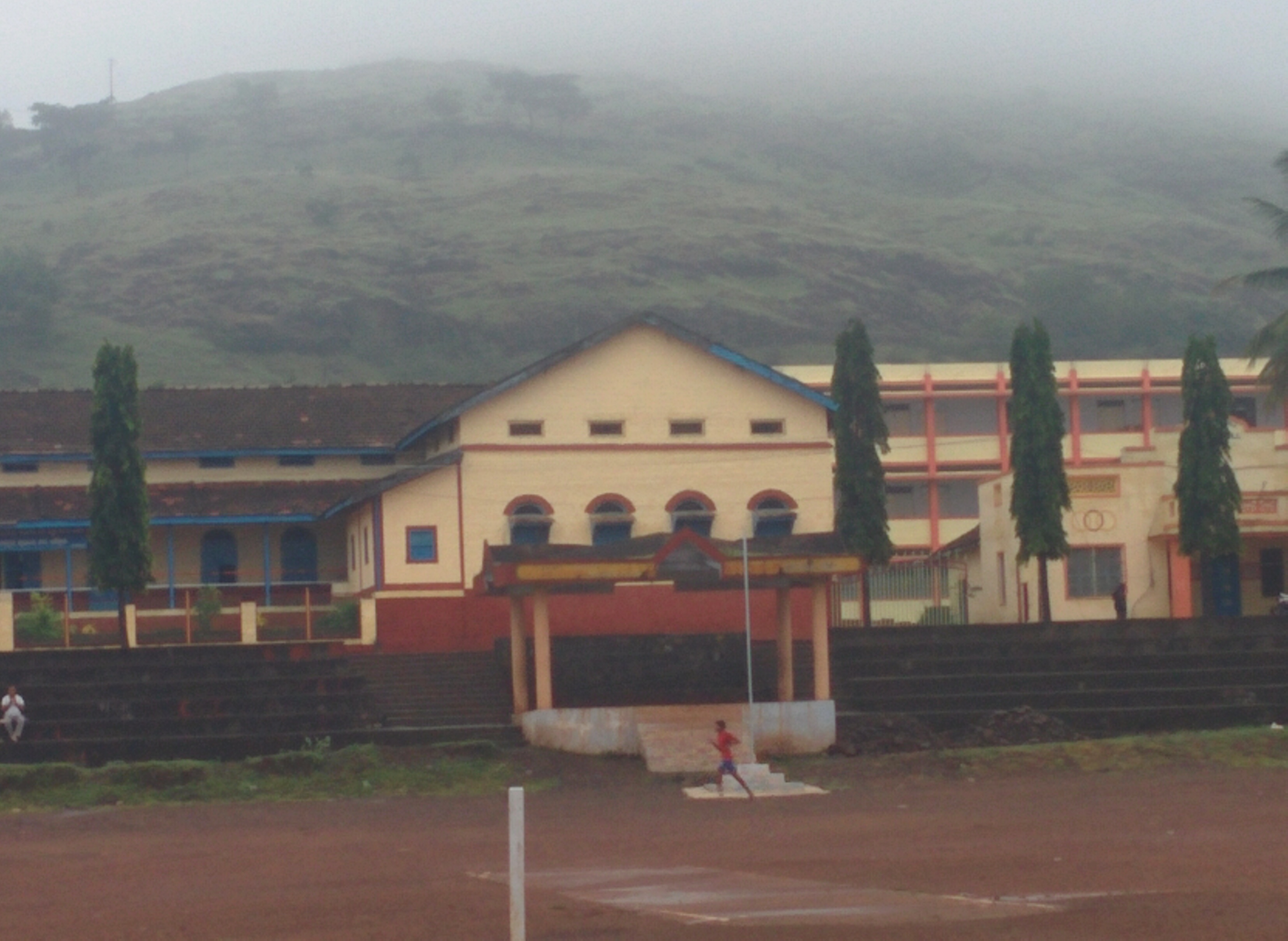 CTE's R.D School Chikodi